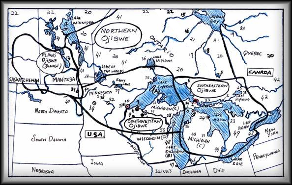 Anishinaabe Aki including NAN in northern Ontario